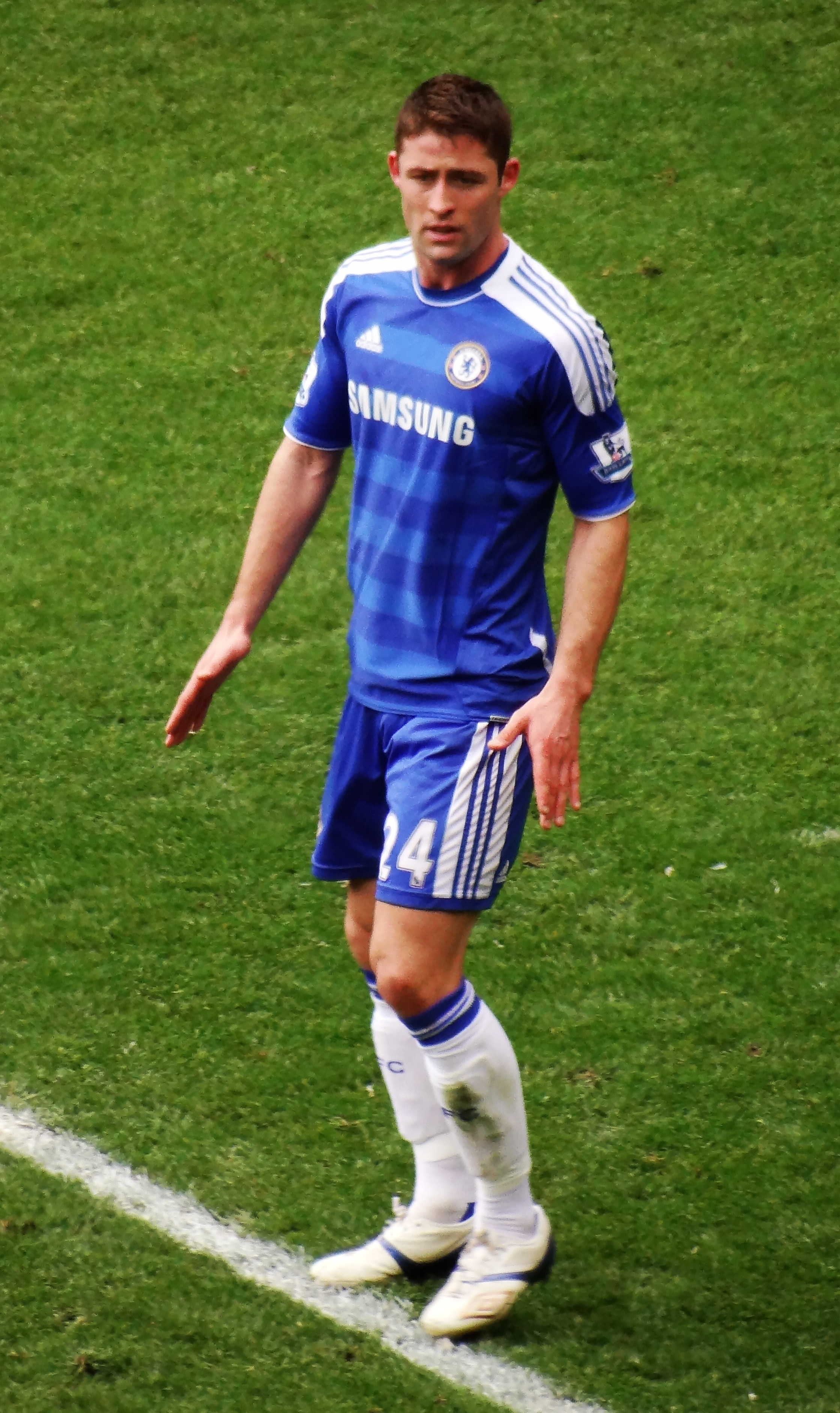 Chelsea defender Gary Cahill